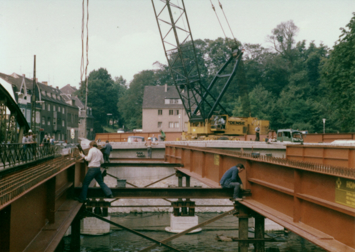 Construction of the Wupper bridge in Leverkusen-Opladen, Germany